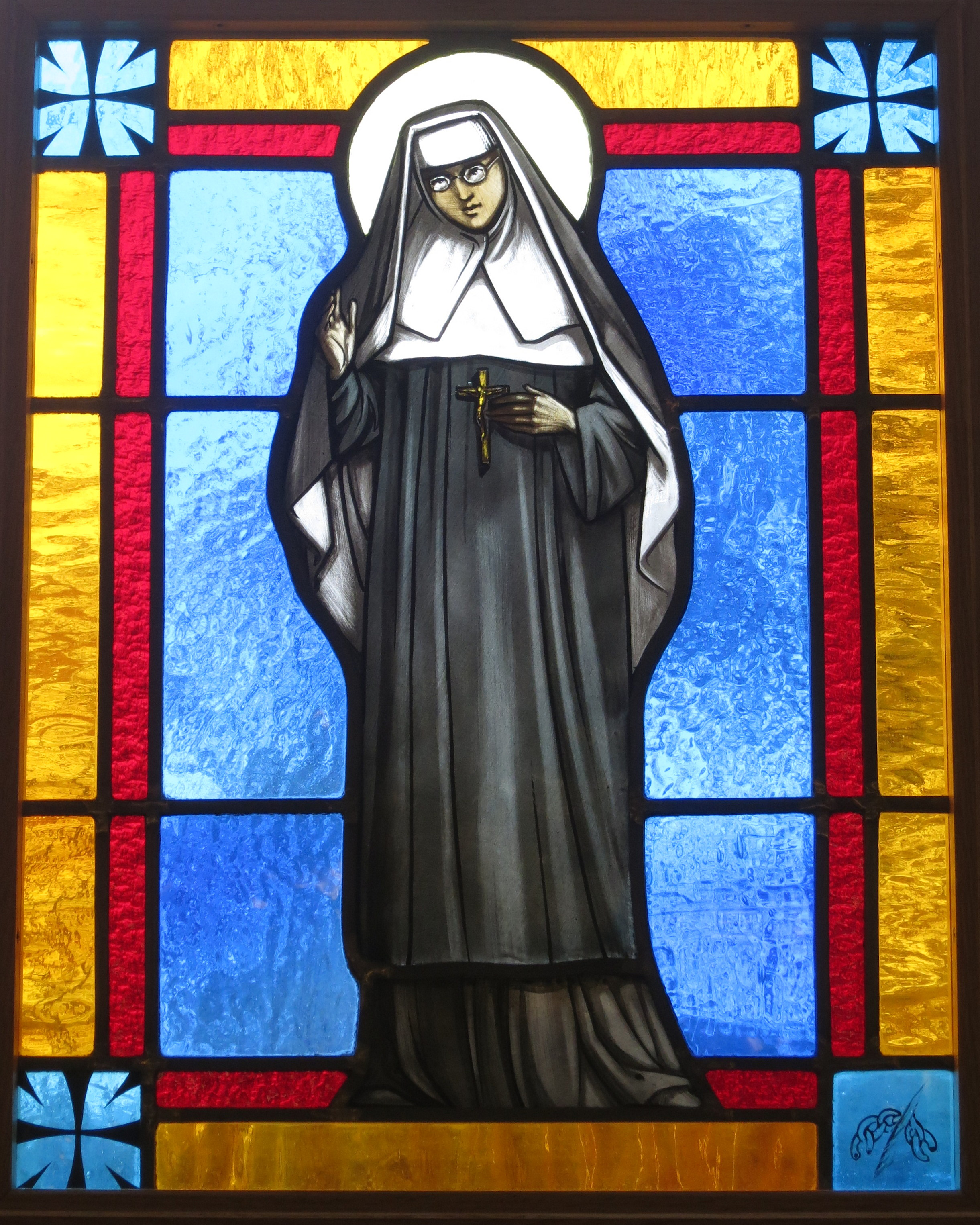 Saint Stephen, Martyr Roman Catholic Church (Chesapeake, Virginia) - stained glass, St. Katharine Drexel